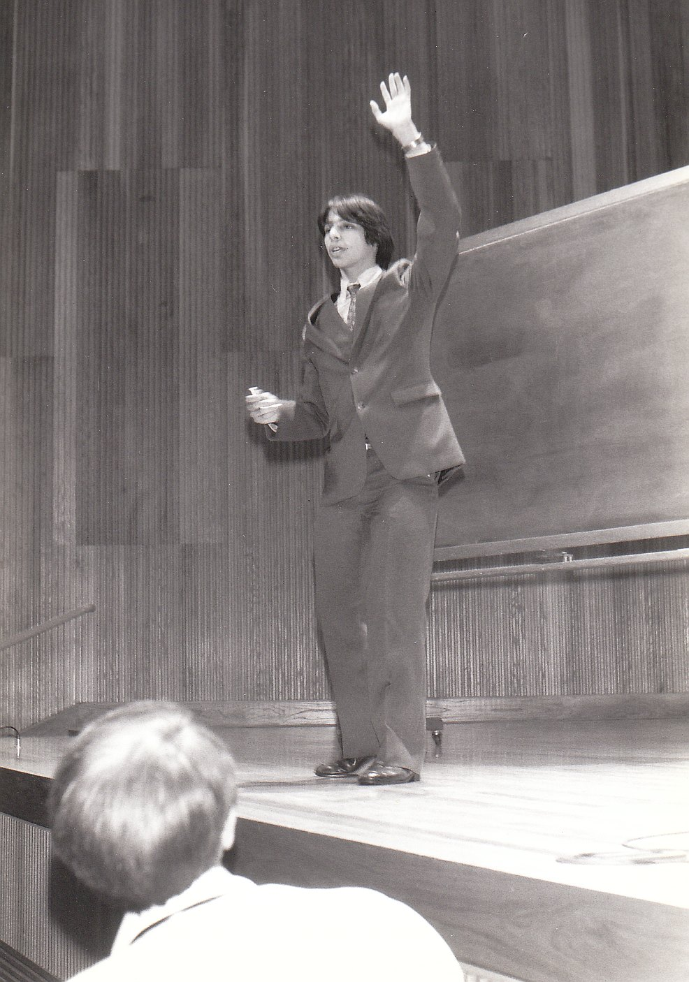 'Lightning Fast Calculator' Arthur Benjamin performs at the 1983 CSICOP Conference in Buffalo, NY